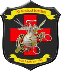 Logo for 2nd Medical Battalion